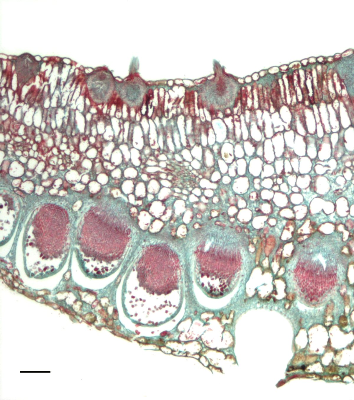 Light microscopy of Puccinia graminis showing a cross section of a Barberry leaf infected with Puccinia graminis. Both the aecium (both immature and mature) and pycnidium (spermagonium) can be seen on either side of the leaf they are infecting. Scale bar = 0.2mm.